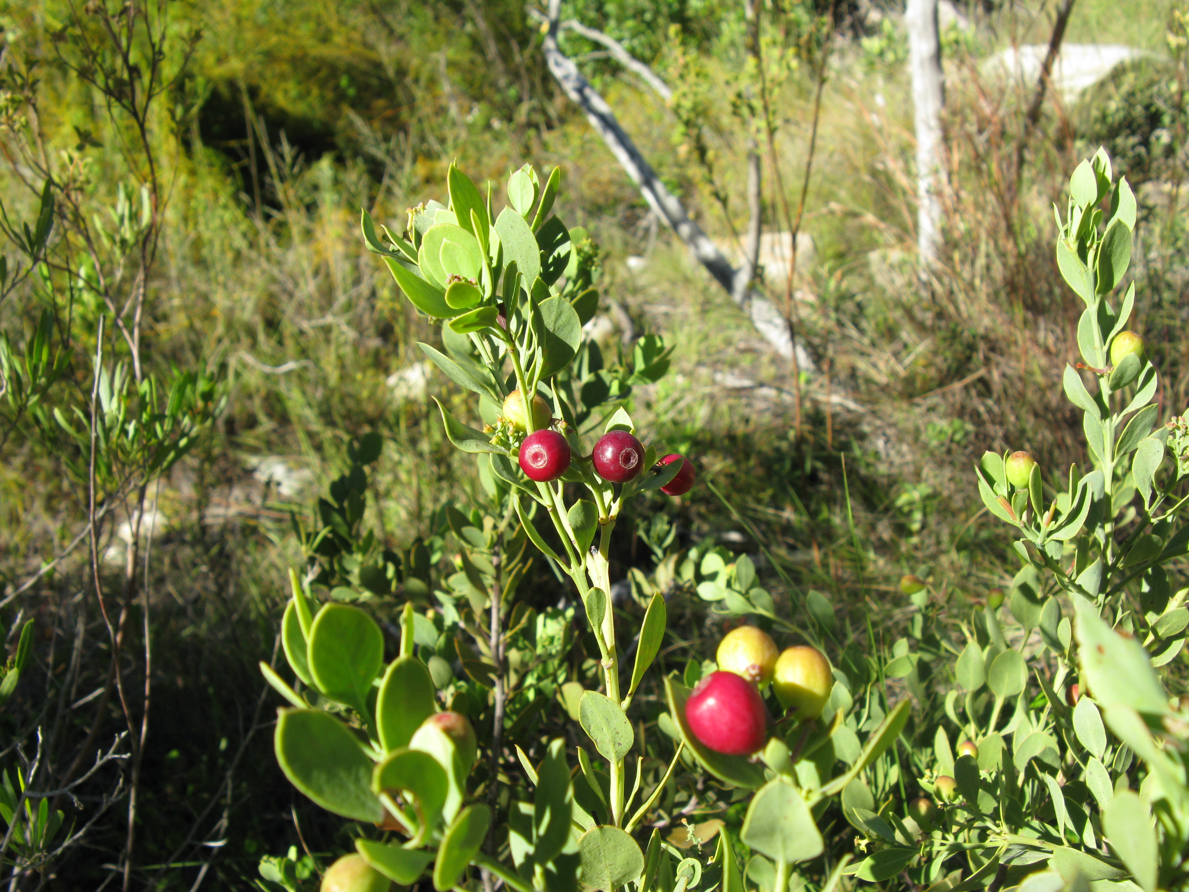 Osyris compressa in fruit near Uniondale South Africa. The species used to be Colpoon compressum